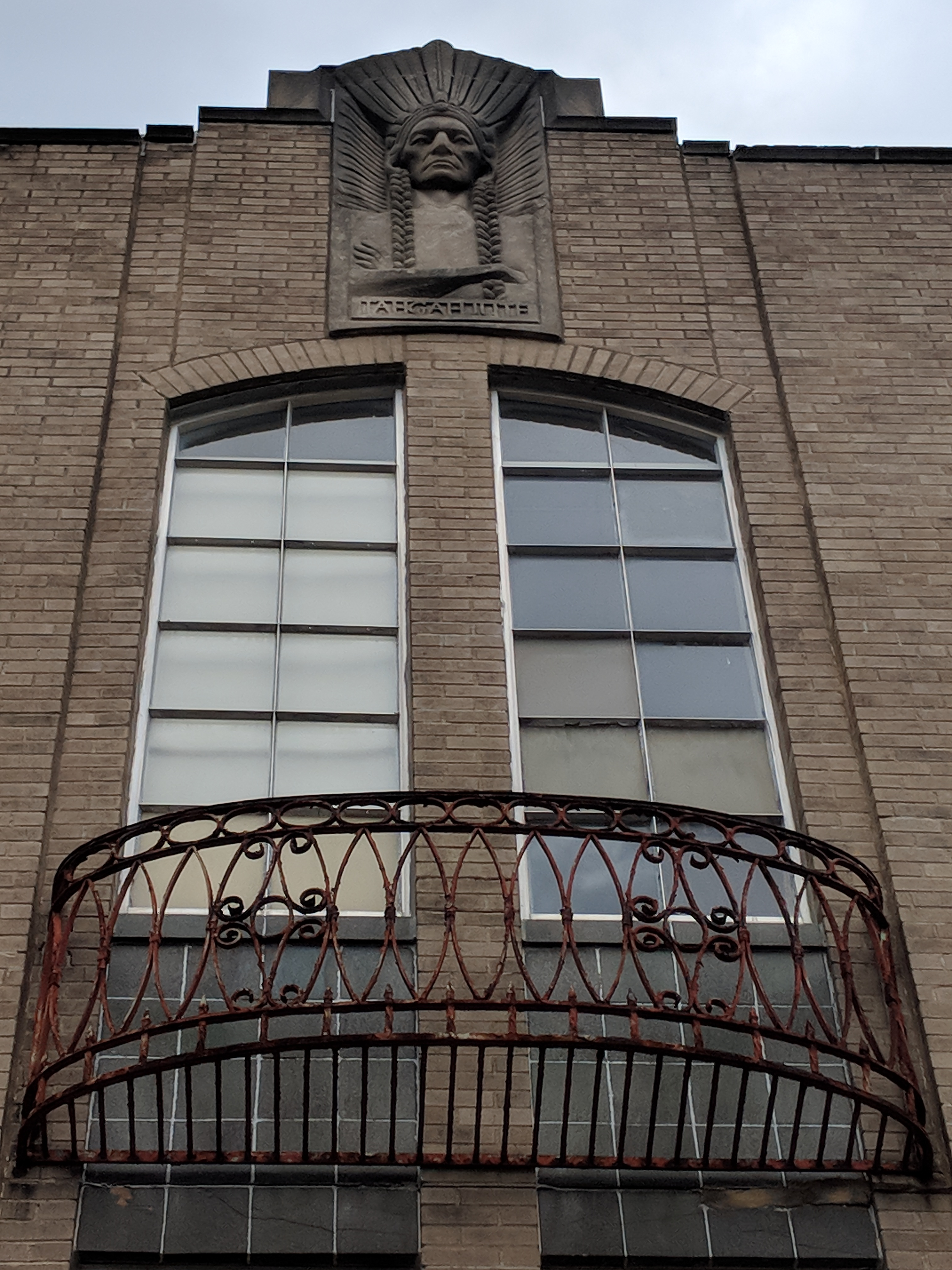 Indianola Junior High School listed on the National Register of Historic Places (#80003000)